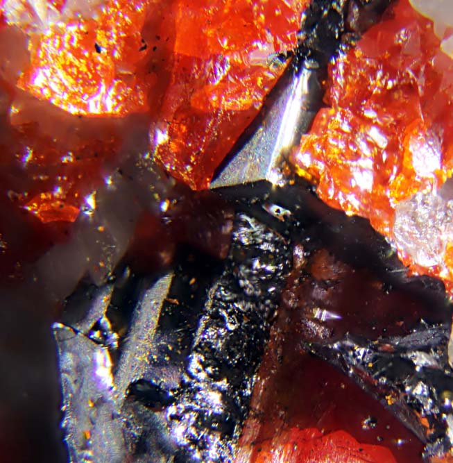 Sharp metallic crystals of enneasartorite and hendekasartorite, two extremely rare thallium minerals from the Lengenbach quarry (IMA 2015-074 and IMA 2015-075, respectively, both announced in February 2016) grown on realgar. Both species have been analyzed by EDX by Dr. Topa of the NHM Wien, ref. HG076.Enneasartorite and hendekasartorite are two members of the sartorite group minerals.